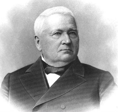 Martin I. Townsend, New York Congressman